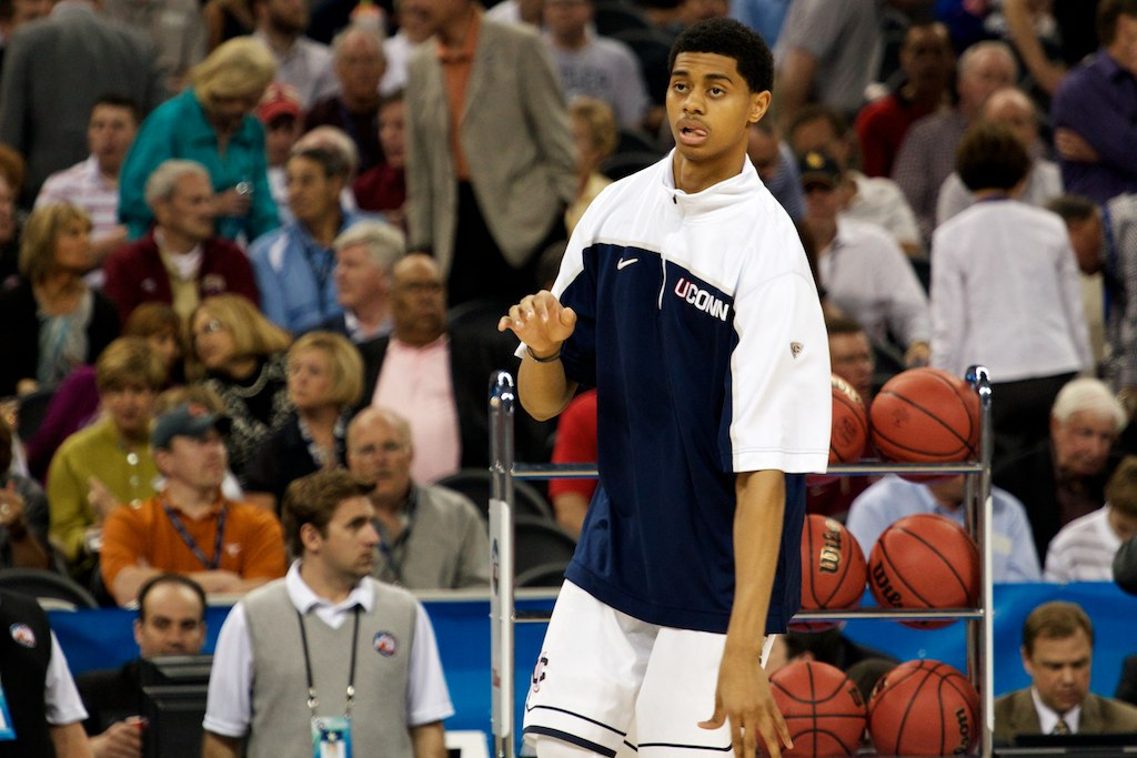 Professional bball player